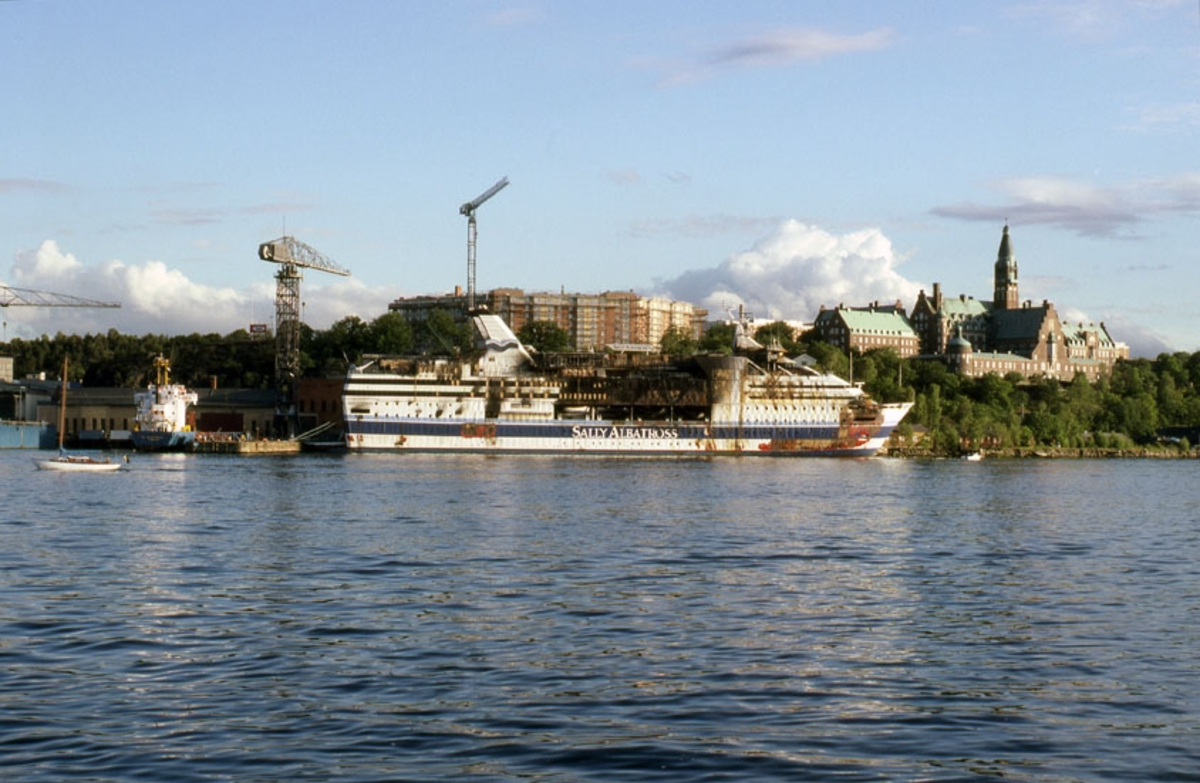 Cruiseferry MS Sally Albatross in Stockholm. The ship was built in 1980 and originally called Viking Saga. It was renamed Sally Albatross in 1986. It was ruined by a fire while docked at Finnboda varv in Stockholm for maintenance in January 1990. Parts of the hull (car deck and below) and all four engines were used in building a new Sally Albatross that was sold to Silja Line in 1992.